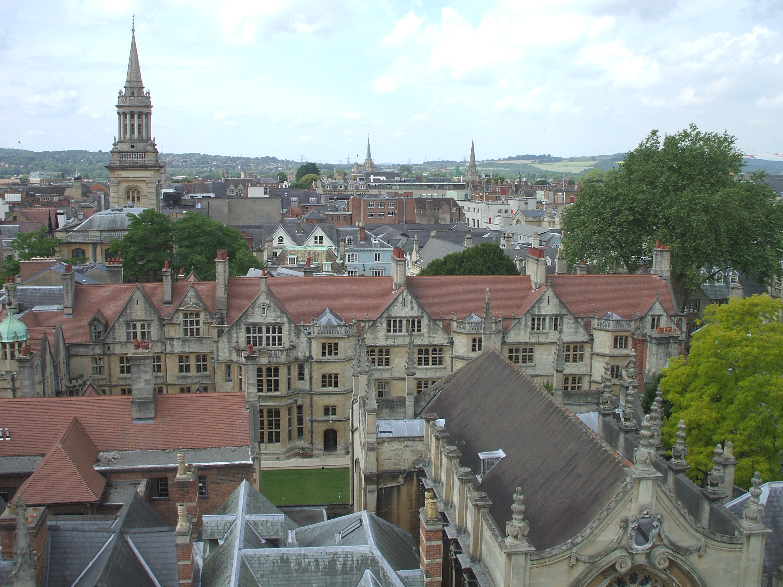 The interior of Brasenose College as viewed from St Marys